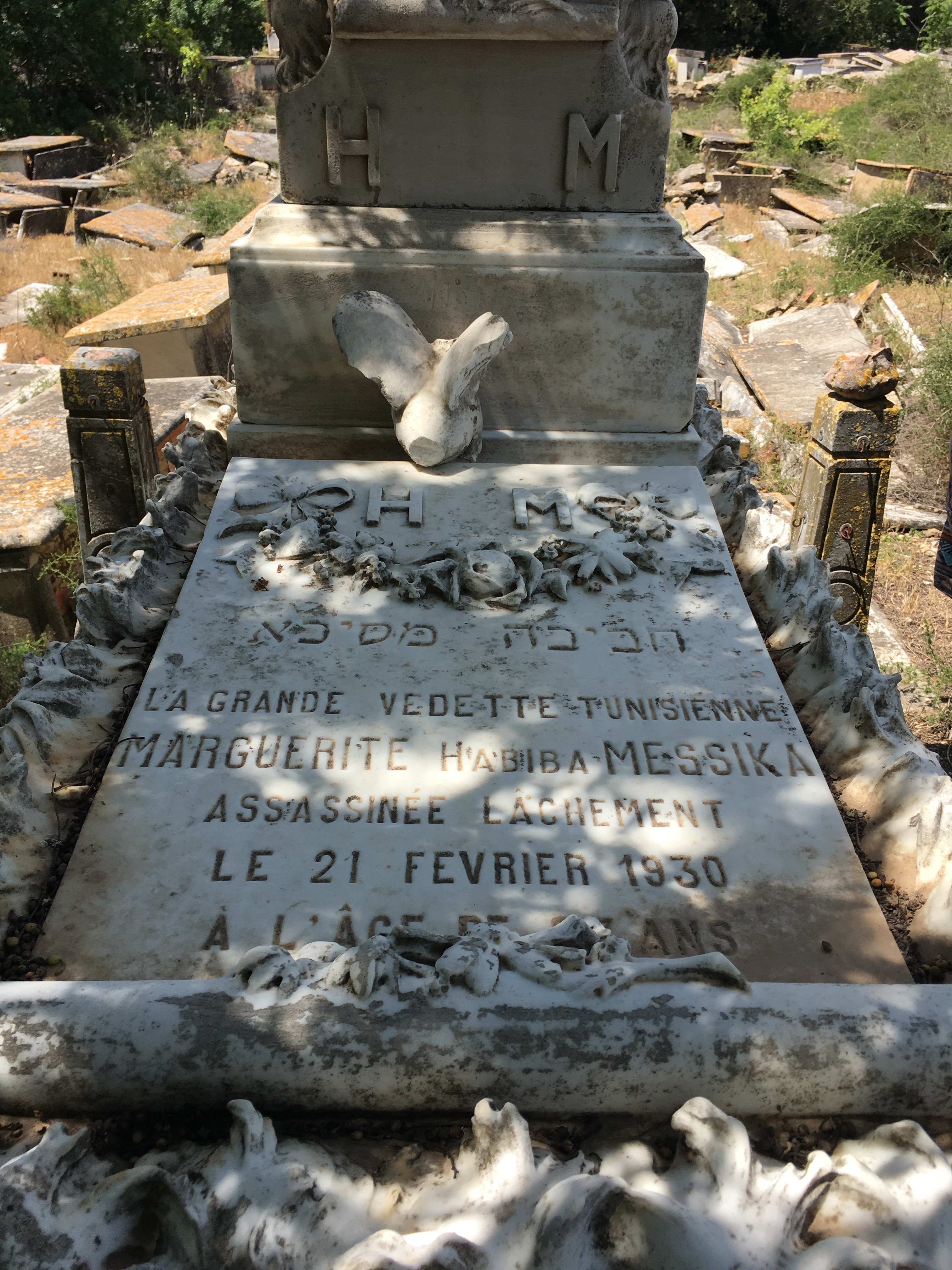 Borgel cemetery - Habiba Msika Tomb